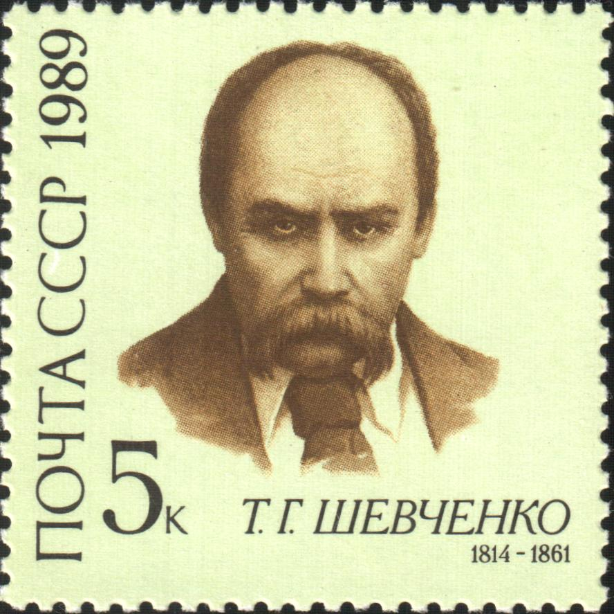 A USSR stamp, 175th birth anniversary of Taras Shevchenko; designer A. Karasev Portrait of Ukrainian poet and painter T. G. Shevchenko Value: 0,05